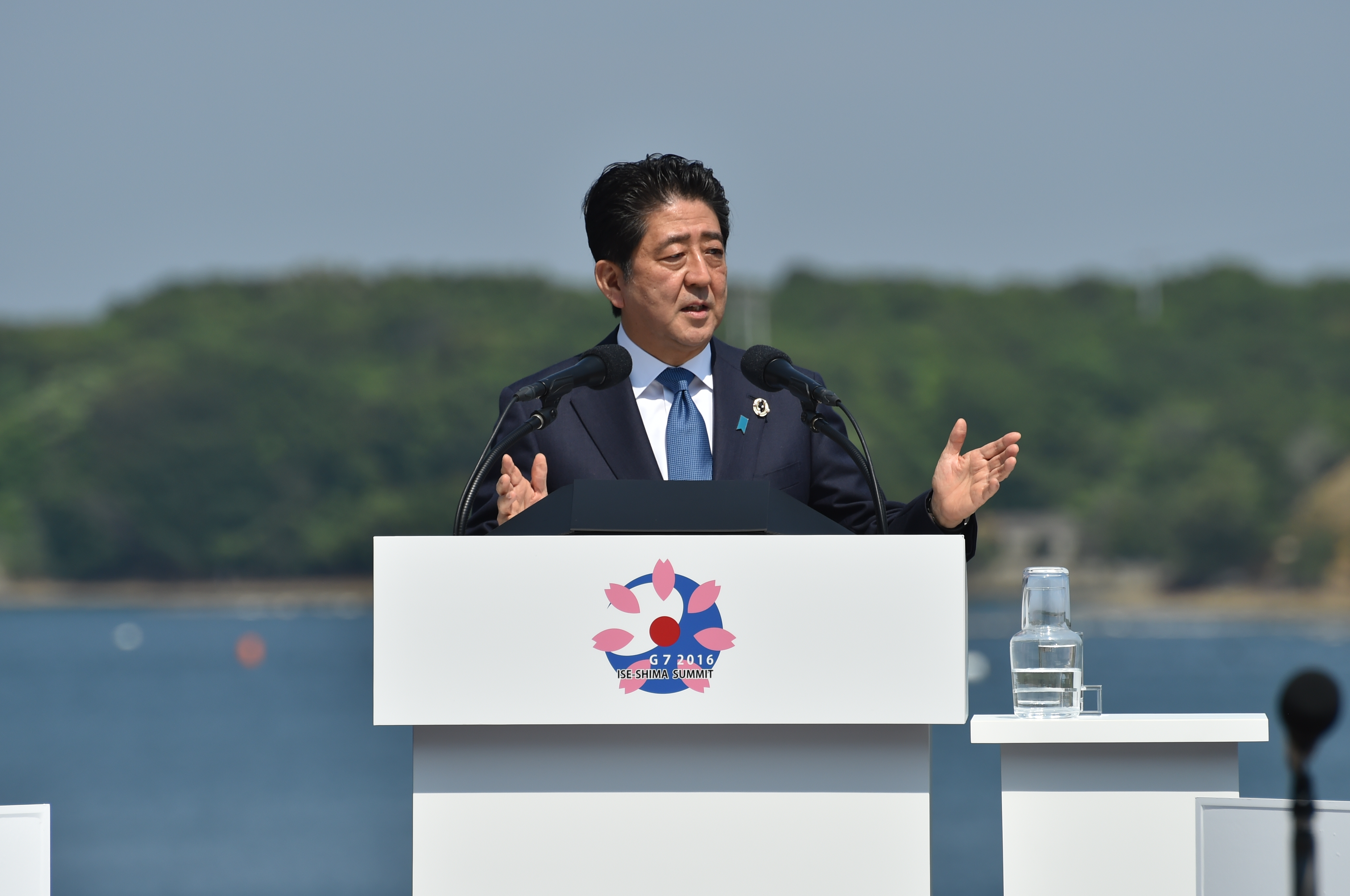 Presidency Press Conference by Shinzo ABE. It is a scene at 42nd G7 summit.